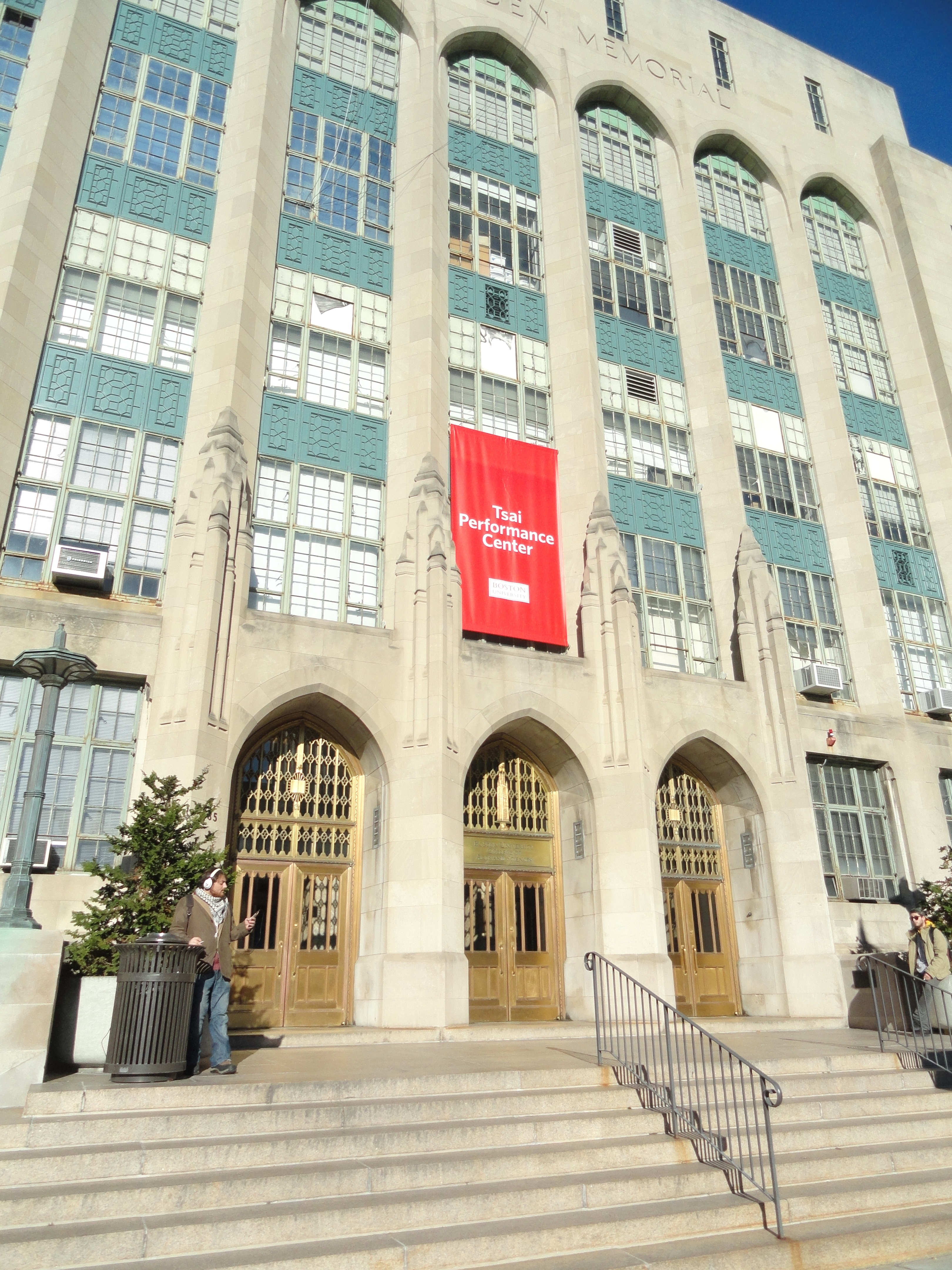 Tsai Performance Center - Boston University, Boston, Massachusetts, USA.